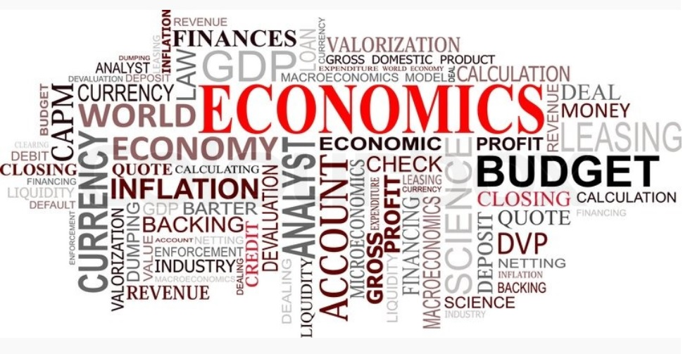 A designal representation.